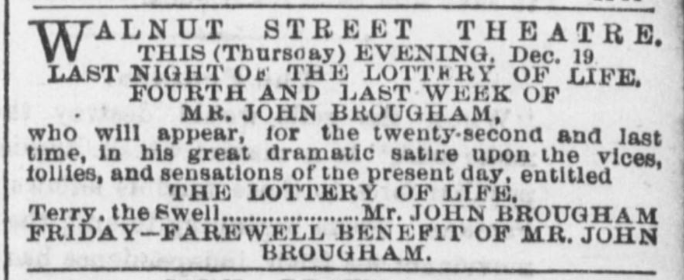 Advertisement for last night in Philadelphia of the John Brougham play "The Lottery of Life", appearing in the Philadelphia Daily Evening Telegraph on 19 December 1867, page 3, rightmost column.